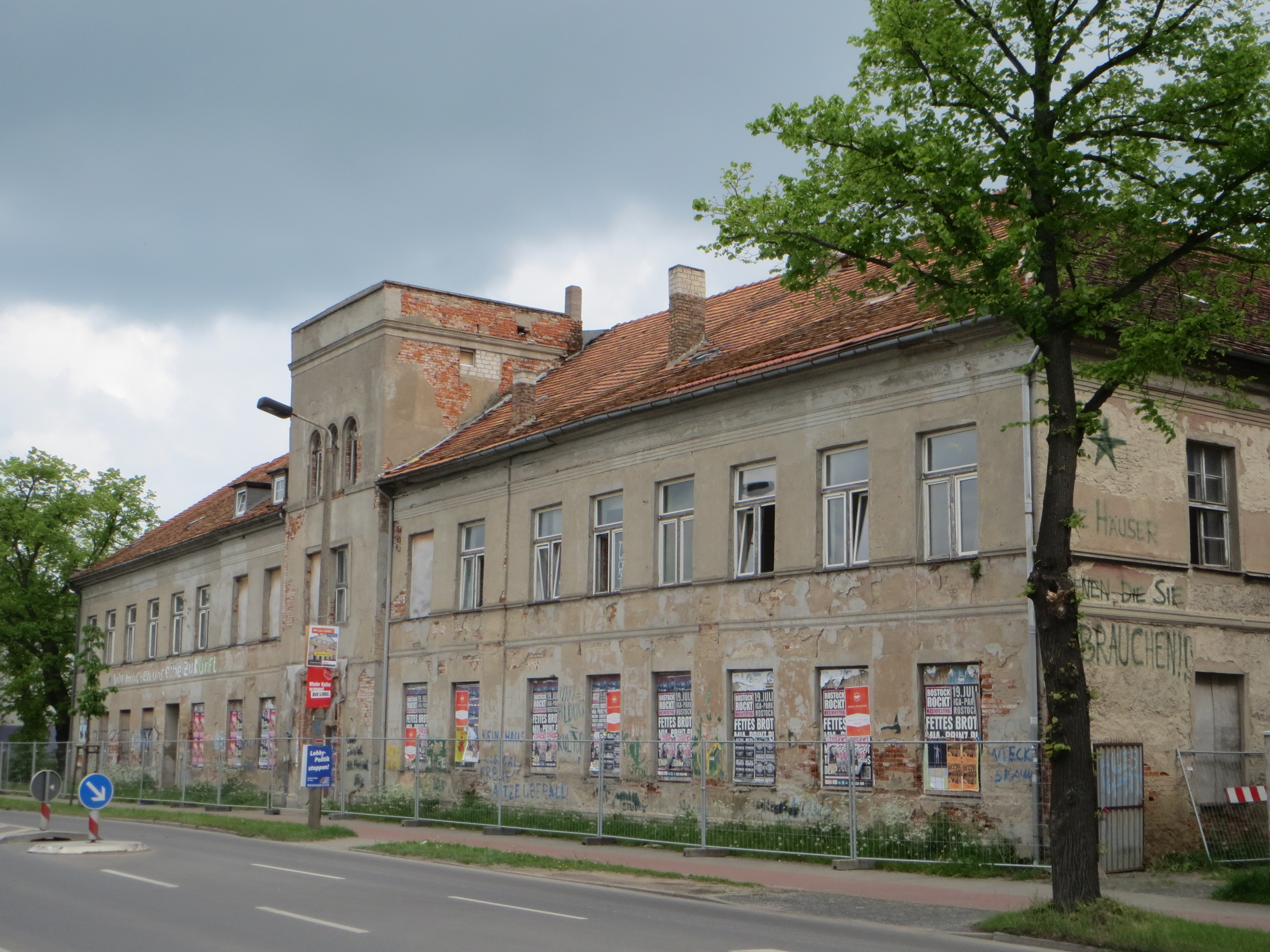 Stralsunder Strasse 10/11 in Greifswald, ex Gesellschaftshaus zum Greif